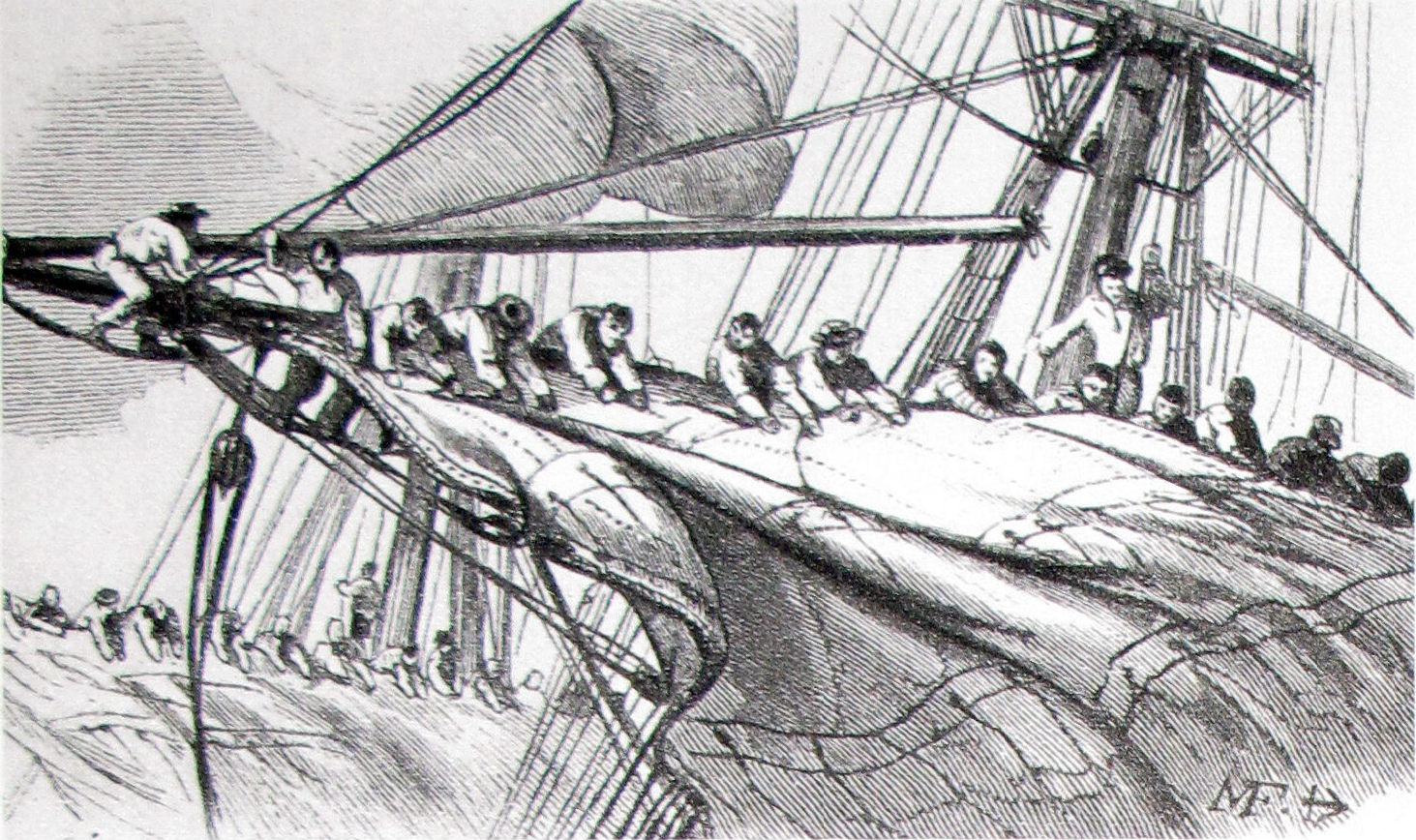 Sailors rigging the tops.